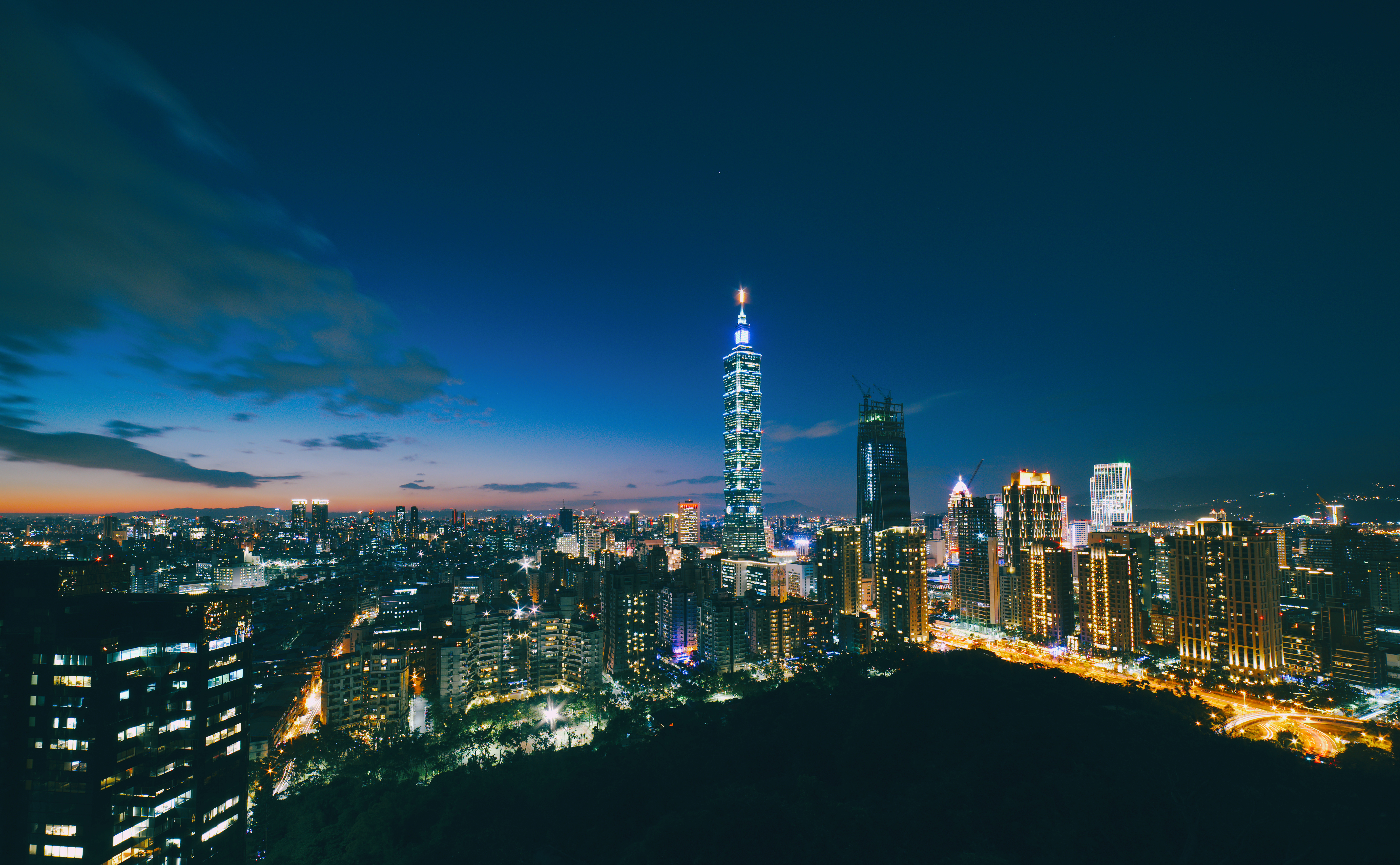 Taipei, Taiwan Night-view Landscape and Skyline from Elephant Mountain